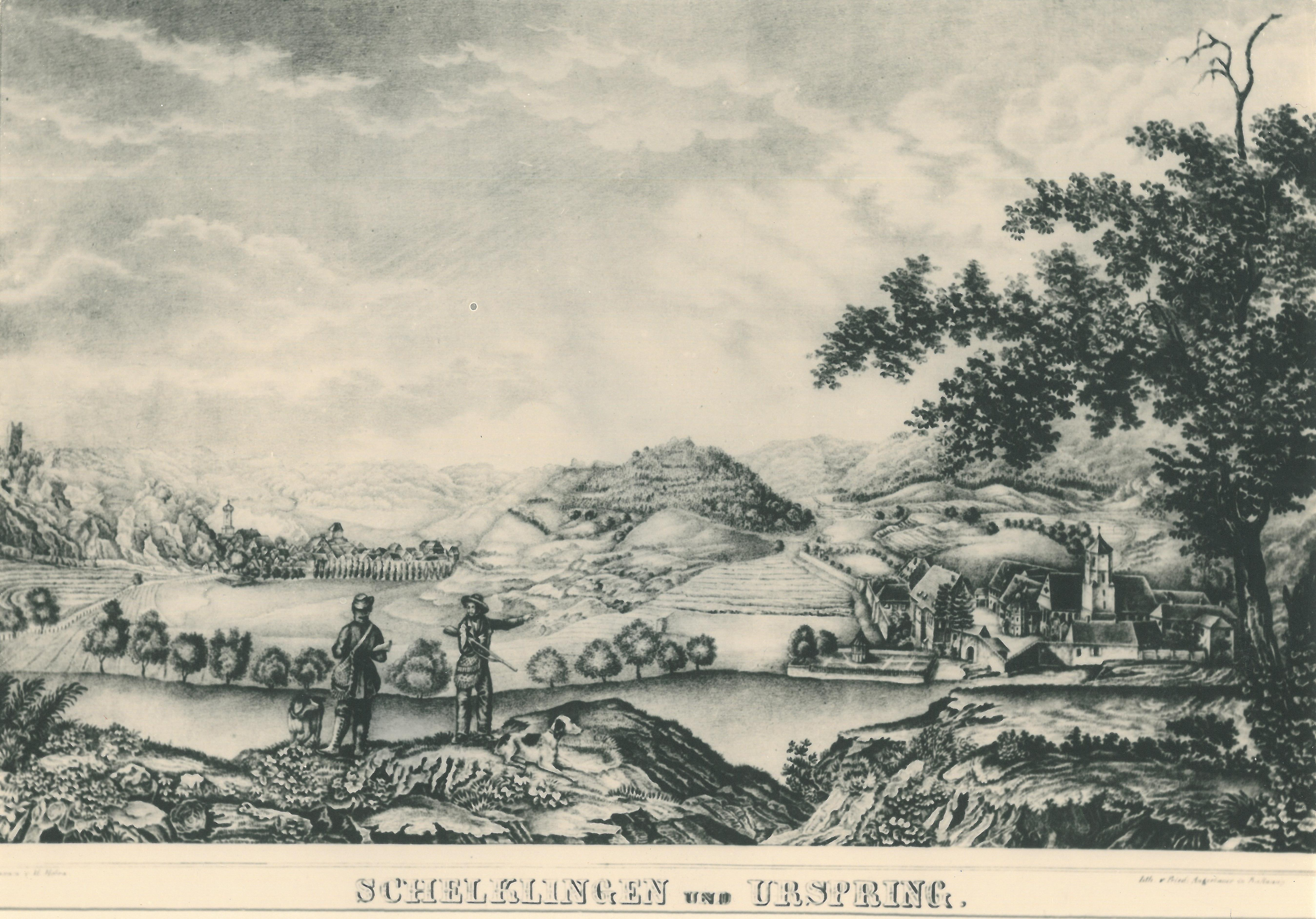 Veduta "Schelklingen and Urspring" from the north; lithography by Fr. Angerbauer in Backnang, probably based on a drawing by Heinrich Karl Hebra (1798-1845)